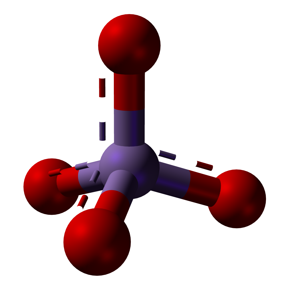 Ball-and-stick model of the permanganate anion, MnO4-, from the crystal structure. X-ray crystallographic data from Acta Cryst. (2004). A60, 494-501.